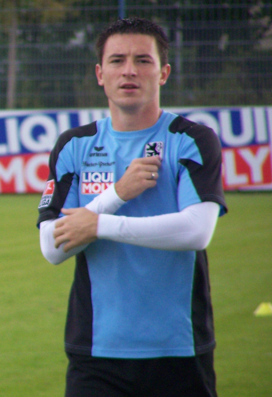 Antonio Rukavina, 1860 munich, training